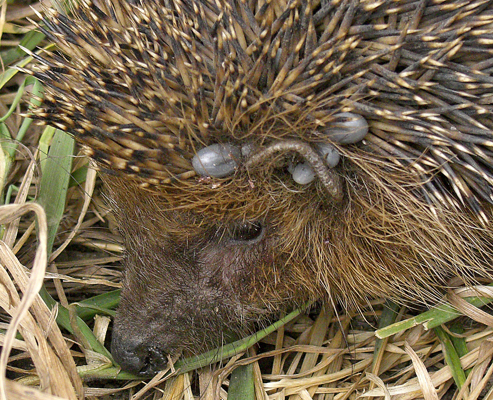 Few Ixodidaes on hedgehog east.